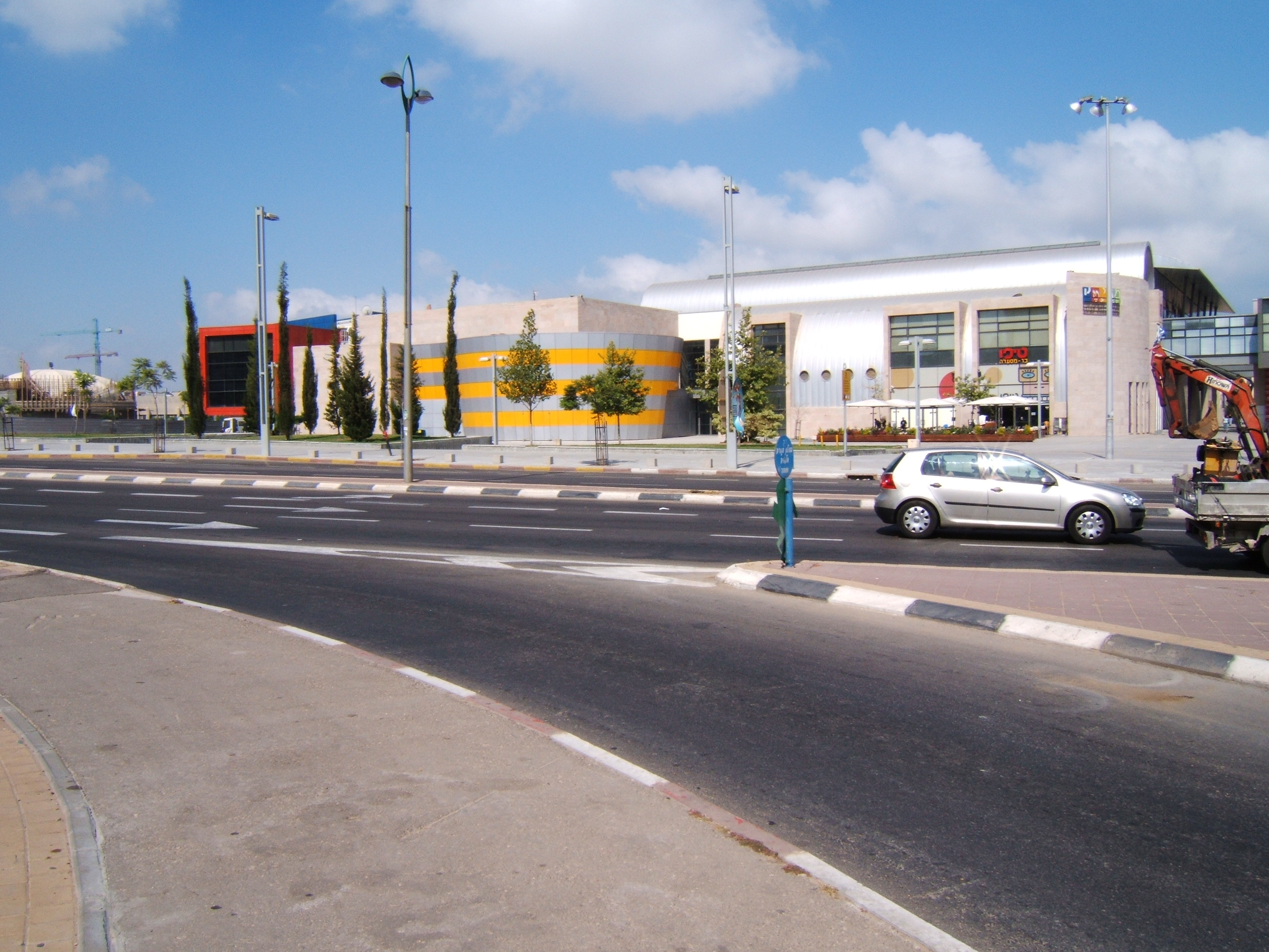 Mediatheque Library in Holon, Israel